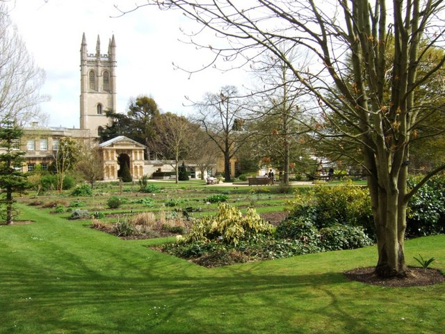 Oxford Botanical Garden With Magdalen Tower beyond.